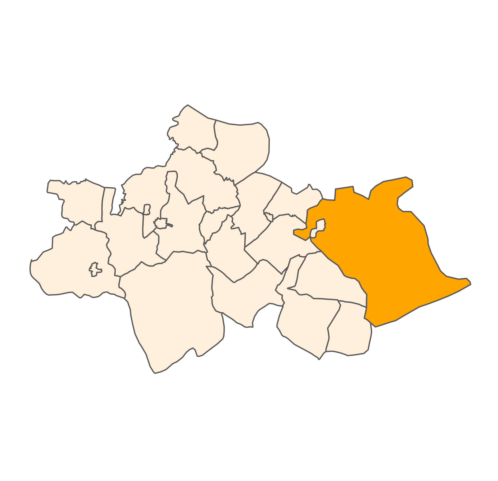 Commune (Orange), Sefrou Province (Antique White)